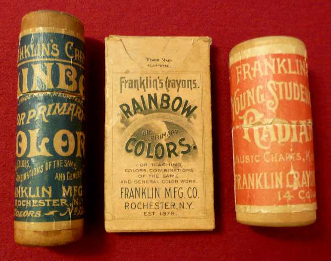 Original Franklin Mfg. Co. crayons from the collection of Ed Welter